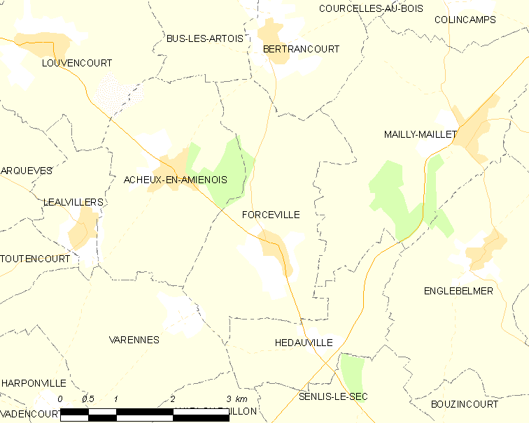 Map of French municipality Forceville